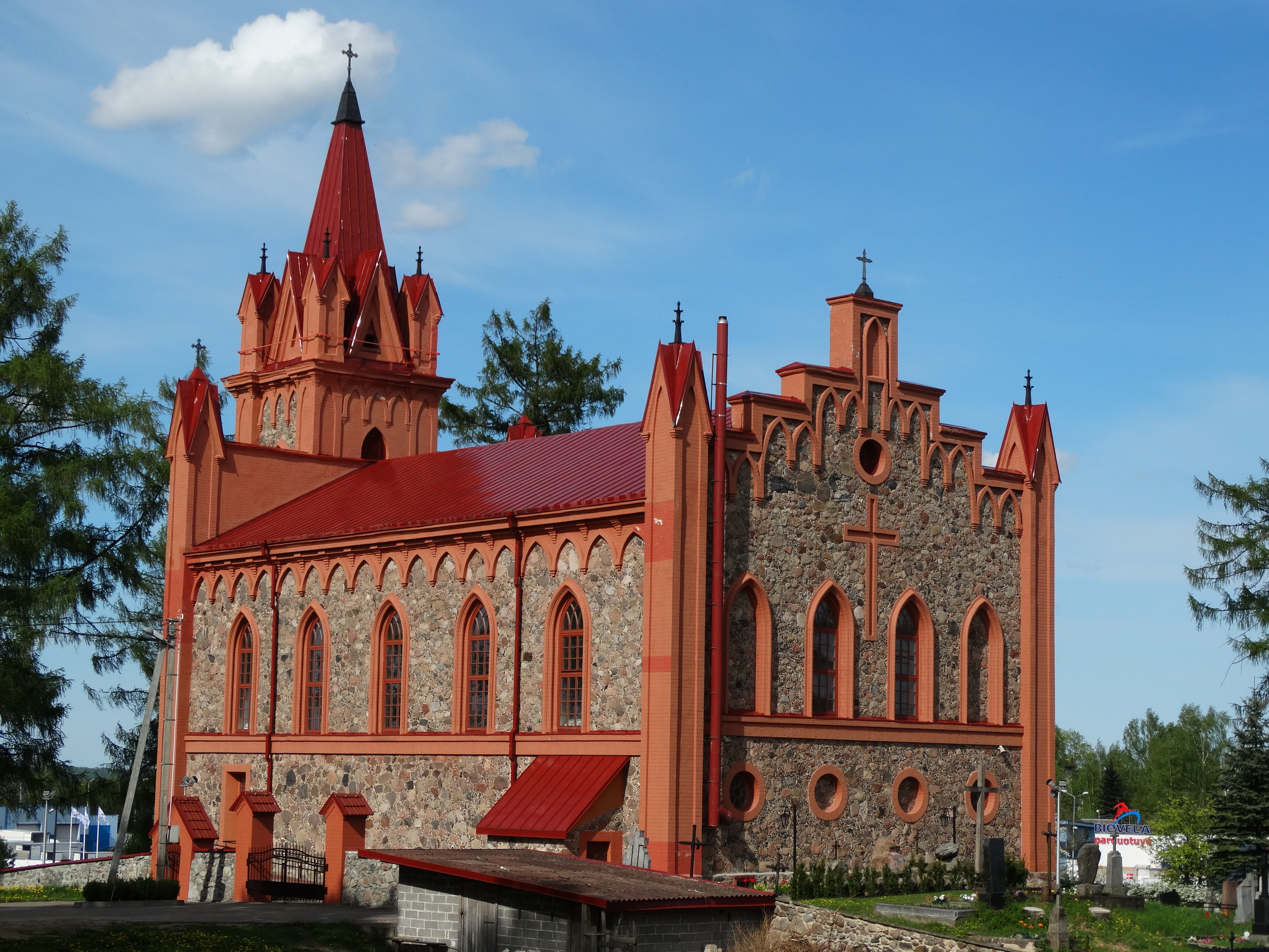 Saint Anne's Catholic Church, back side profile Dūkštos, Vilnius District, Lithuania